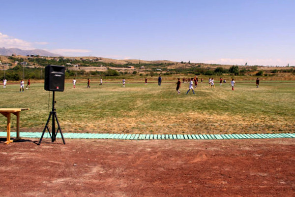 Parpi stadium, Parpi village, Aragatsotn Province, Armenia.